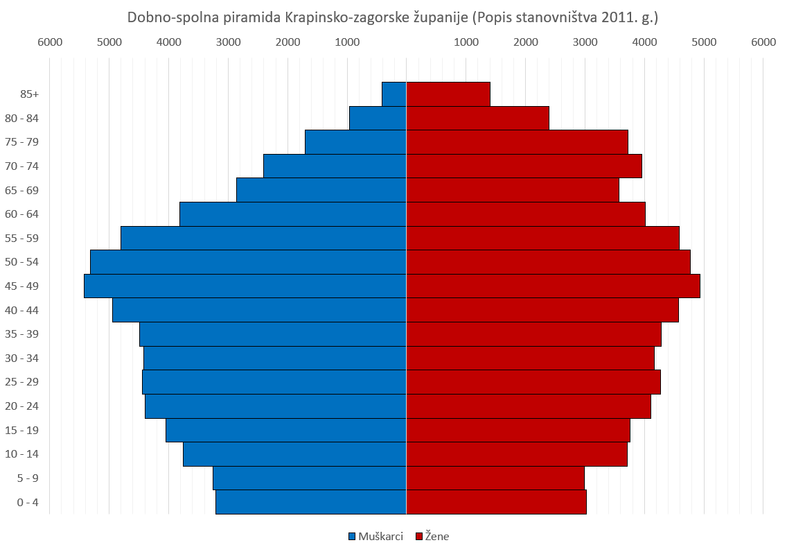 Population pyramid of Krapina-Zagorje County. Version in Croatian. Data from 2011 Census; available at